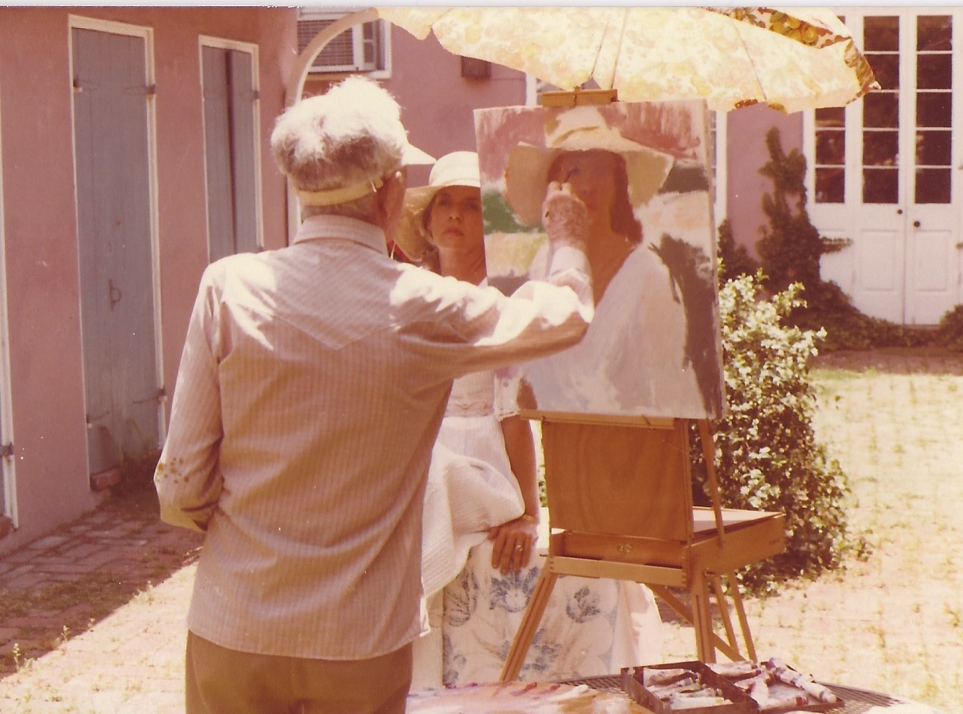 portrait demonstration